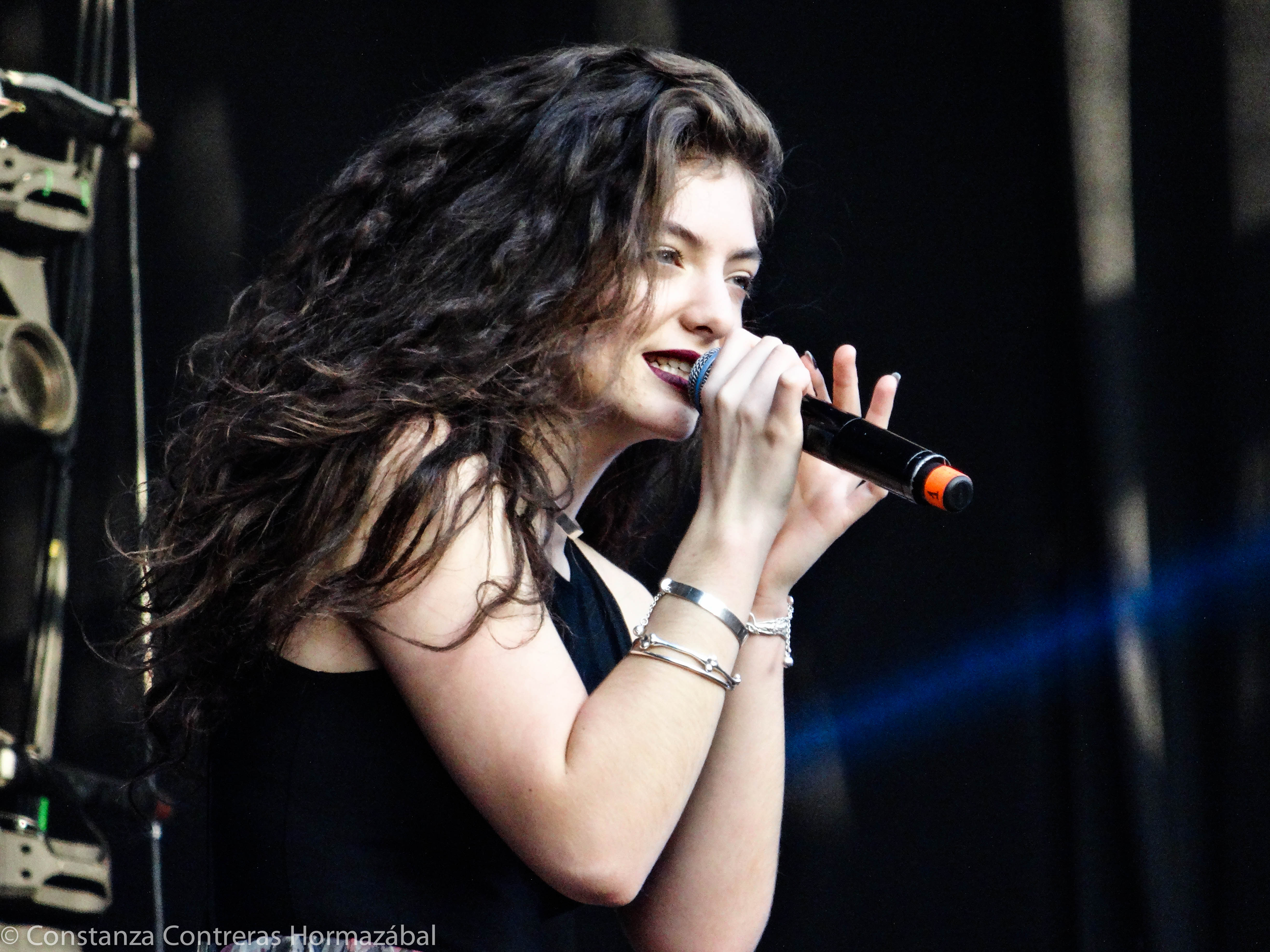 Lorde performing at Lollapalooza Chile in March 2014